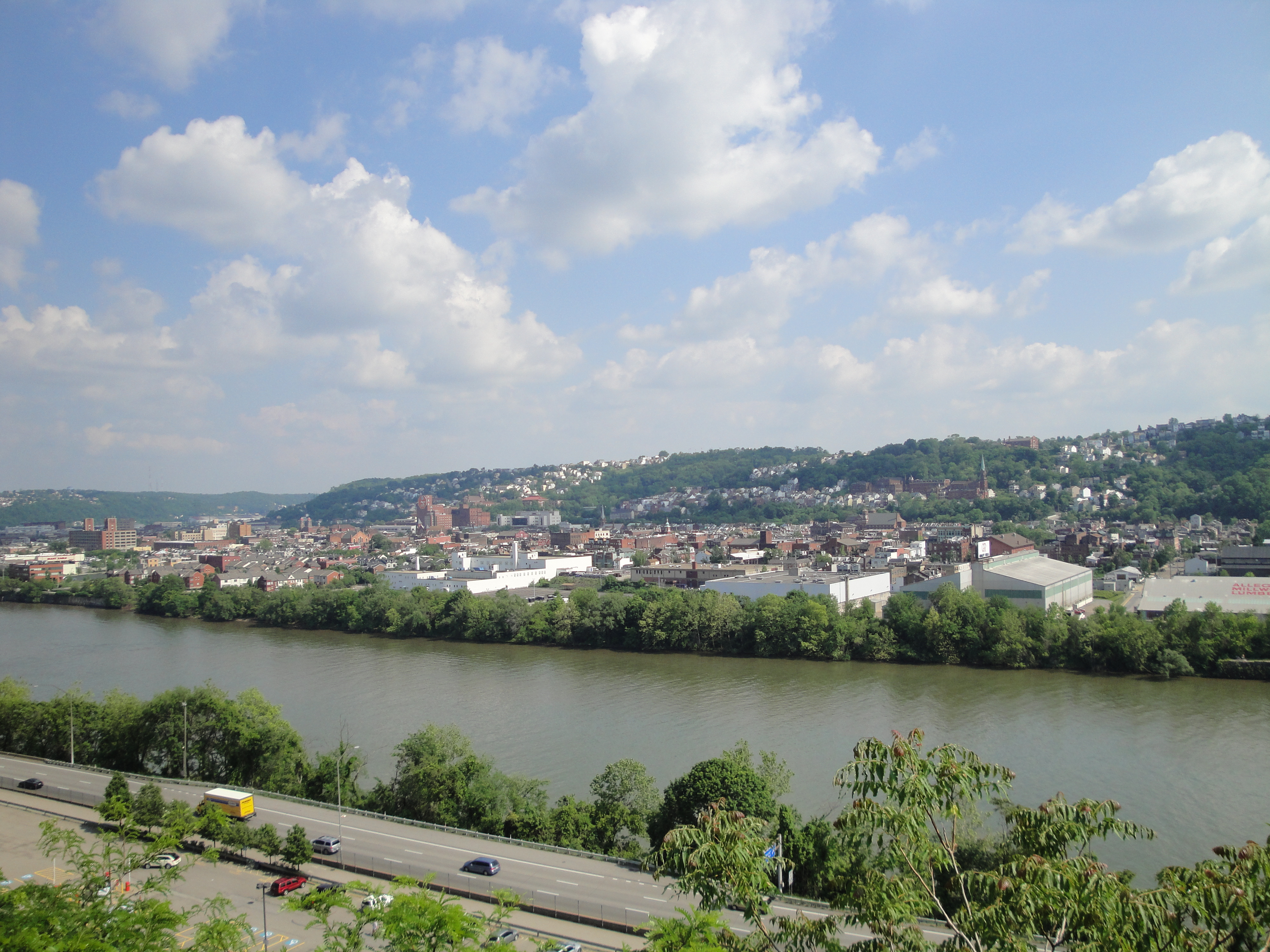 View of South Side from Duquesne University.